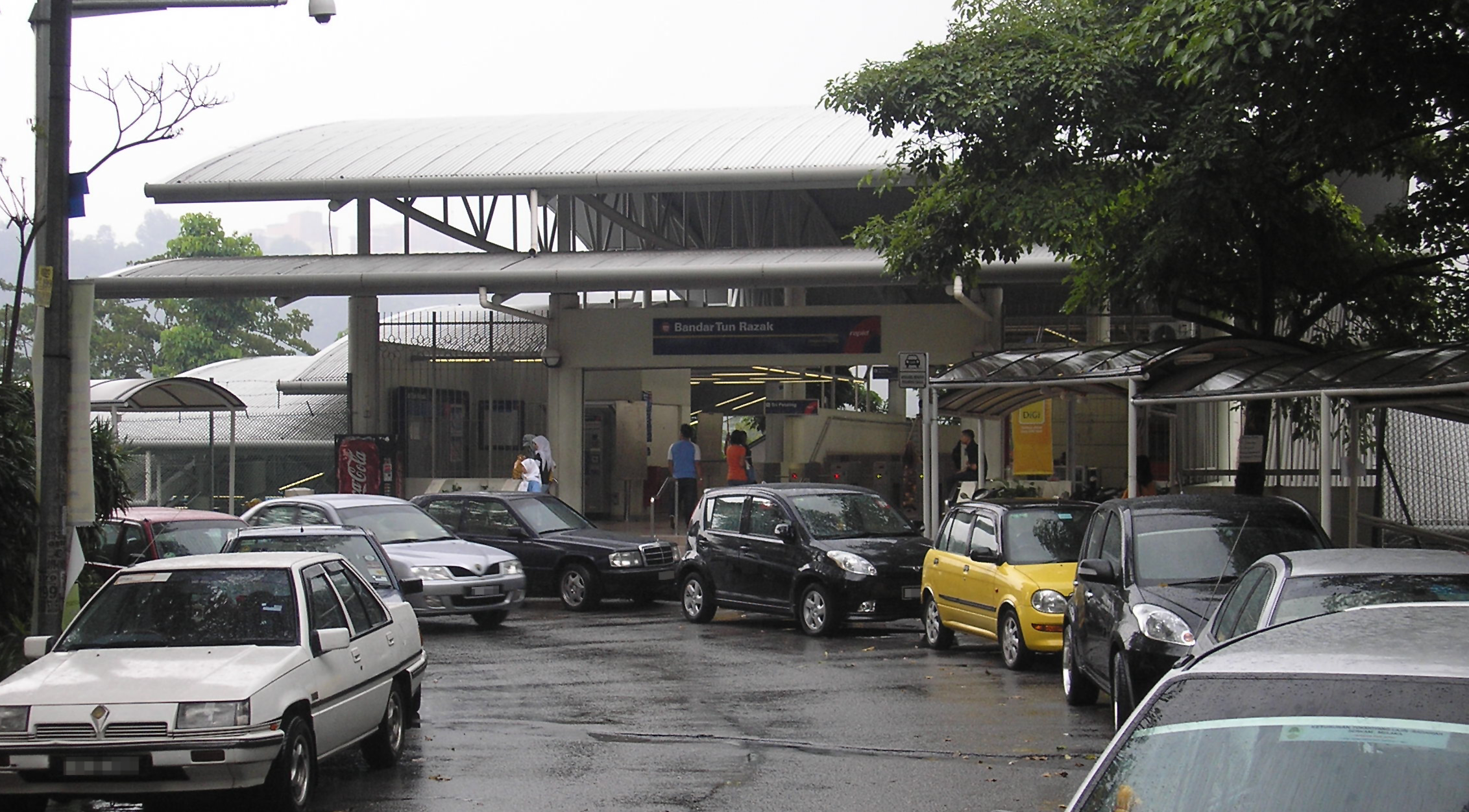 A view towards the west of the Bandar Tun Razak station's (Ampang Line, Sentul Timur-Sri Petaling route) entrance, in Bandar Tun Razak, Kuala Lumpur, Malaysia.